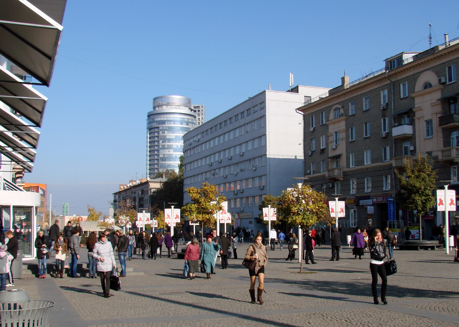 Europe Square in Dnipro, Ukraine